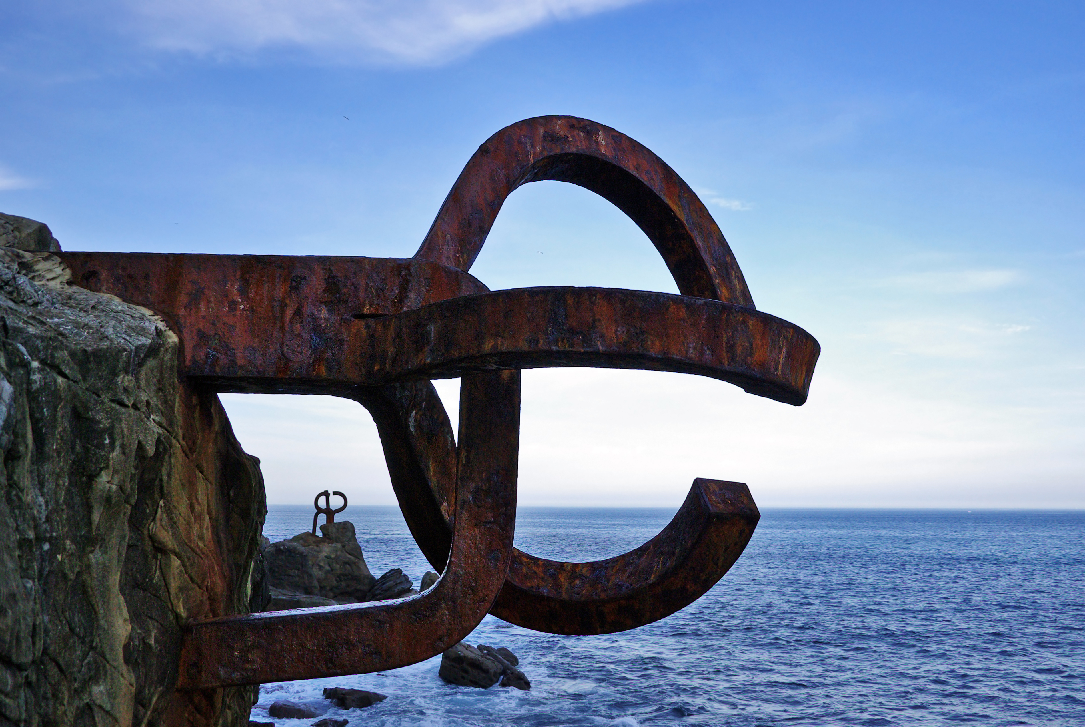 Wind comb: Peine del viento sculptures de Eduardo Chillida at San Sebastian